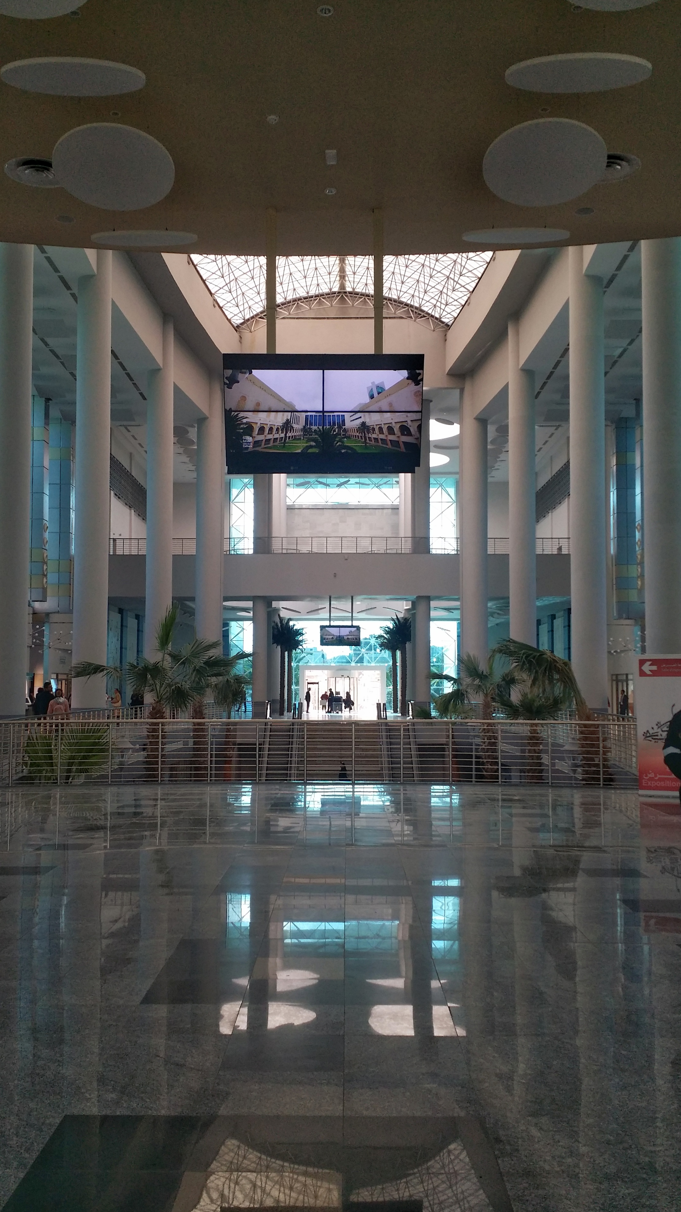 Entry hall of city of culture of Tunis